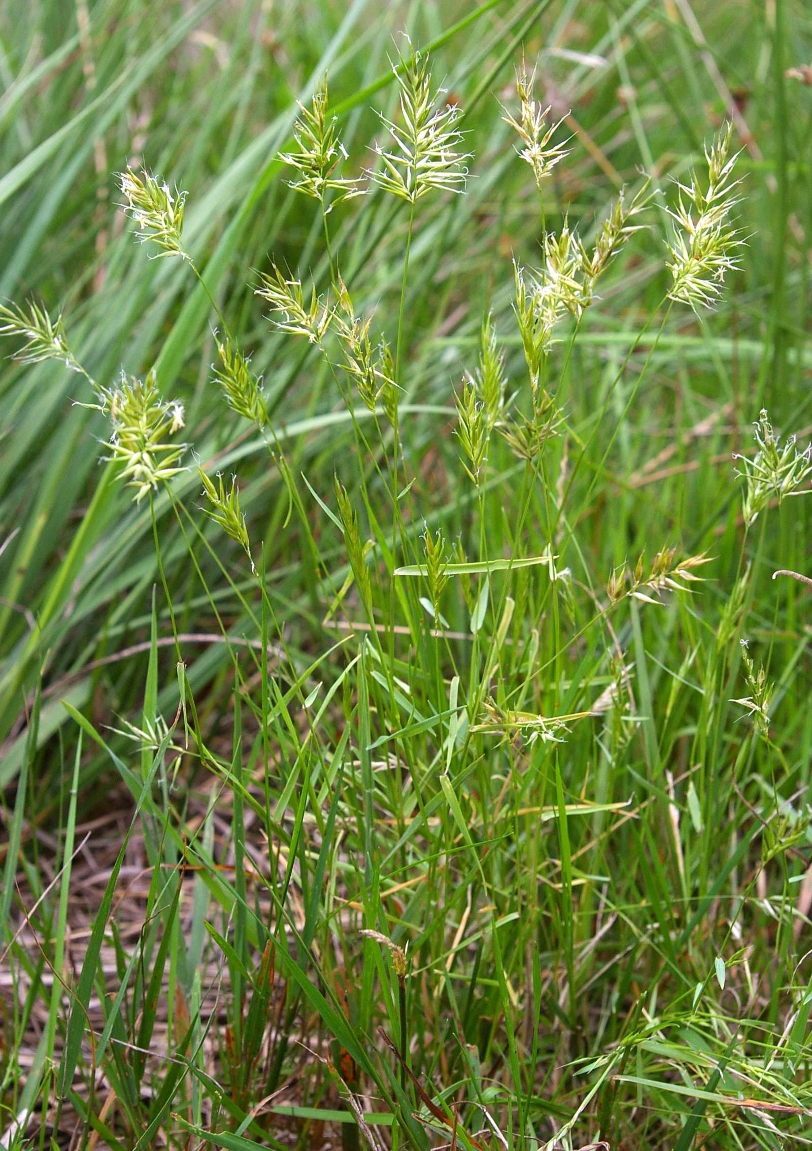 The grass Anthoxanthum aristatum.